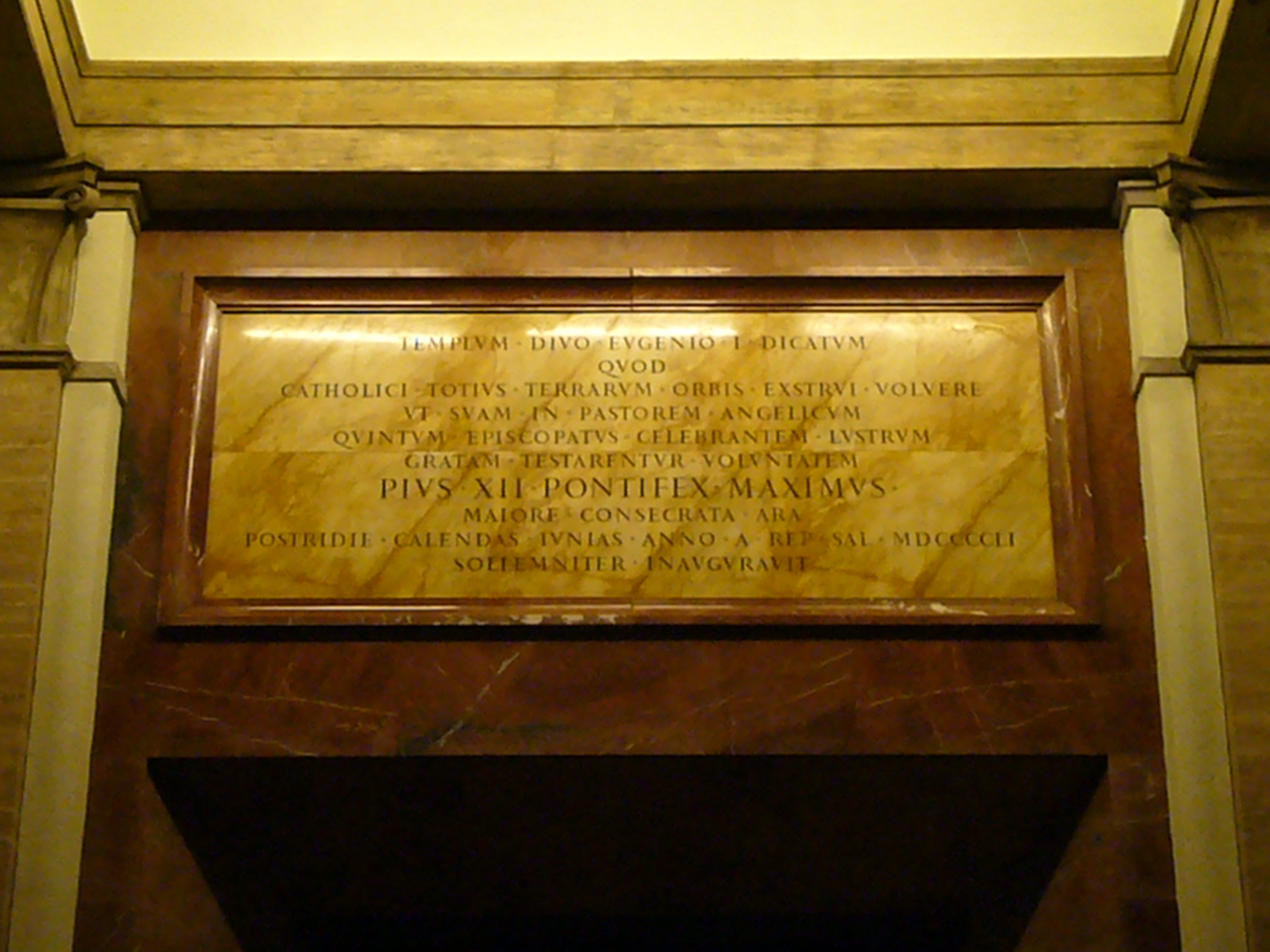 Translation of the Latin inscription: "This church dedicated to Saint Eugene I, which catholics from all over the world wanted to be built in order to show their gratitude against the angelic shepherd celebrating the 25th anniversary of his episcopate: Pope Pius XII, after having consecrated the main altar, solemnly inaugurated it June 2, in the year of salvation 1951."